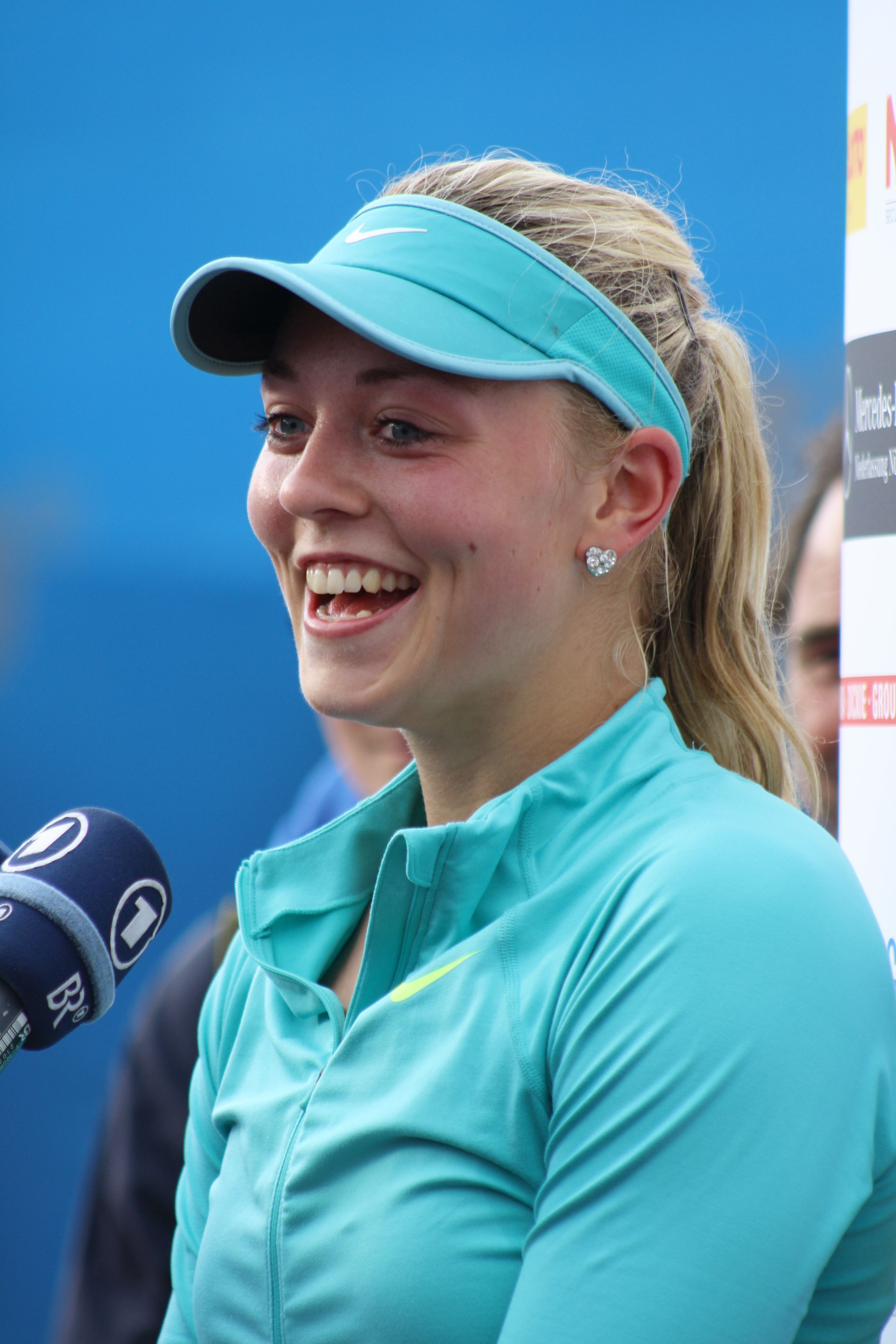 Carina Witthöft, May 2015